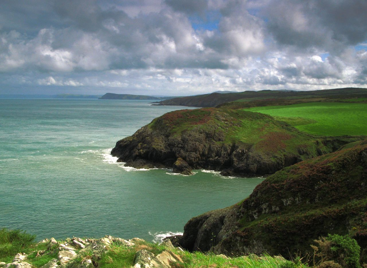 Carregwastad Head, near Fishguard, Pembrokeshire, the landing site for the 1797 French invasion of Wales